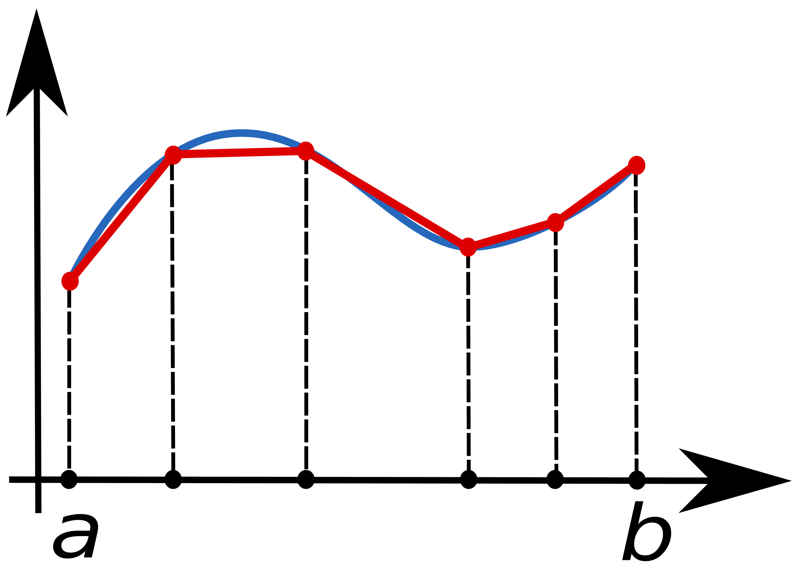 Composite trapezoidal rule illustration. Made with Inkscape